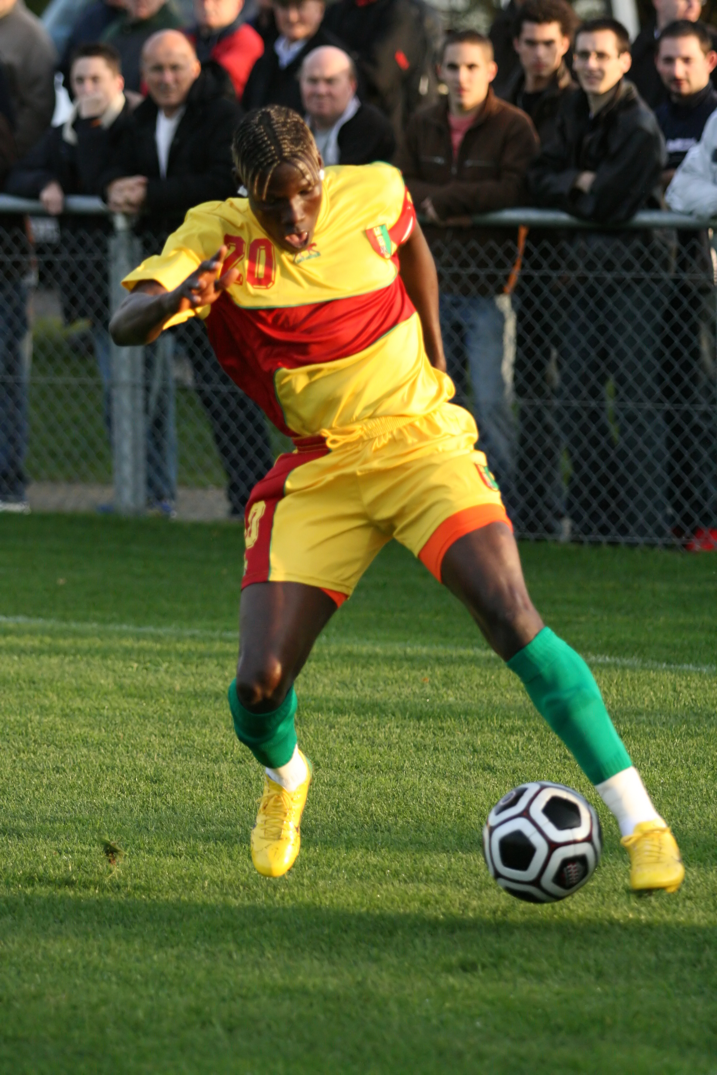 Fodé Mansaré controls the ball during a friendly game with the Syli National against the Stade Rennais youth team in Rennes on the 15th November 2006. Picture by Jean-Marc Liotier.